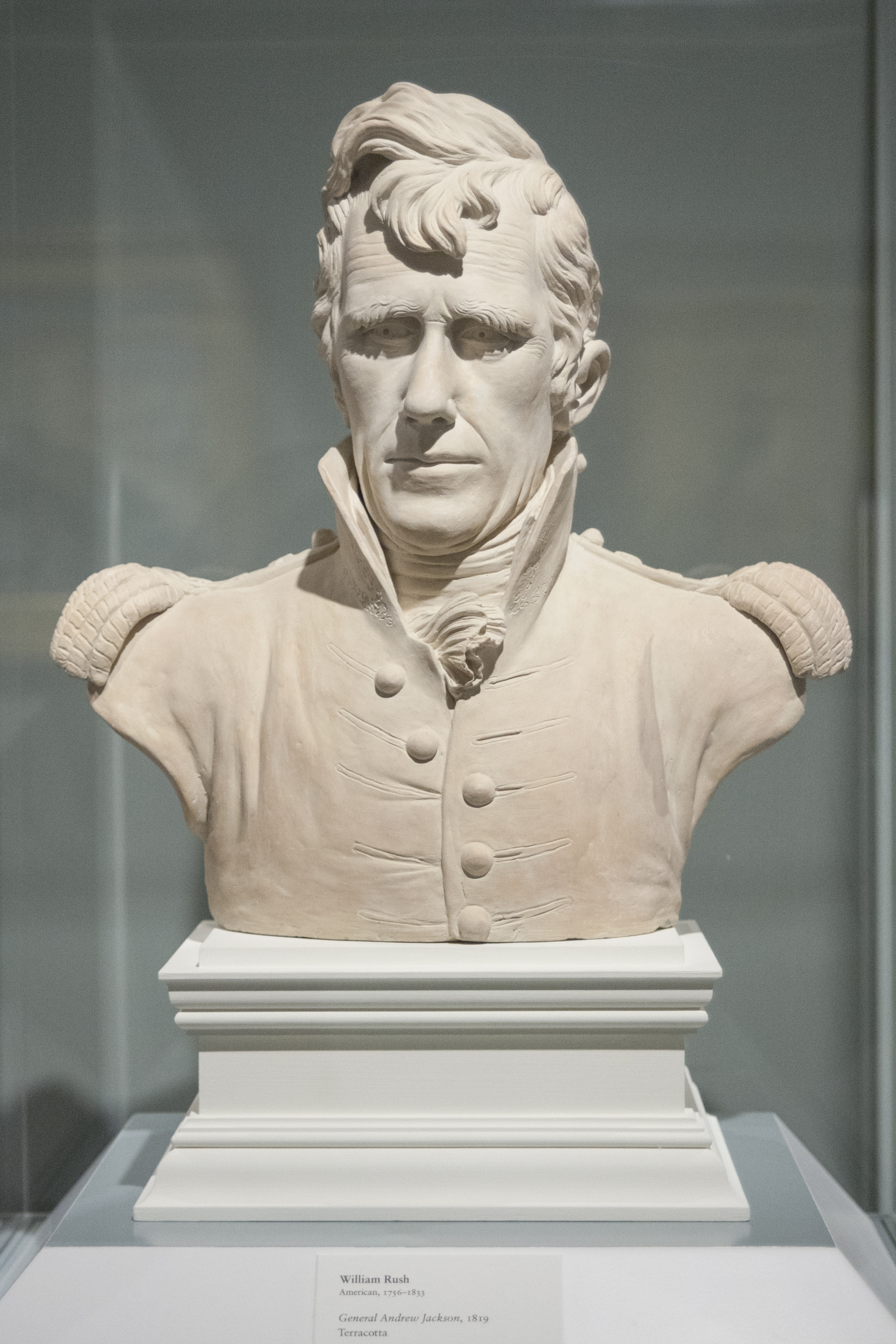 1819 terracotta bust of General Andrew Jackson